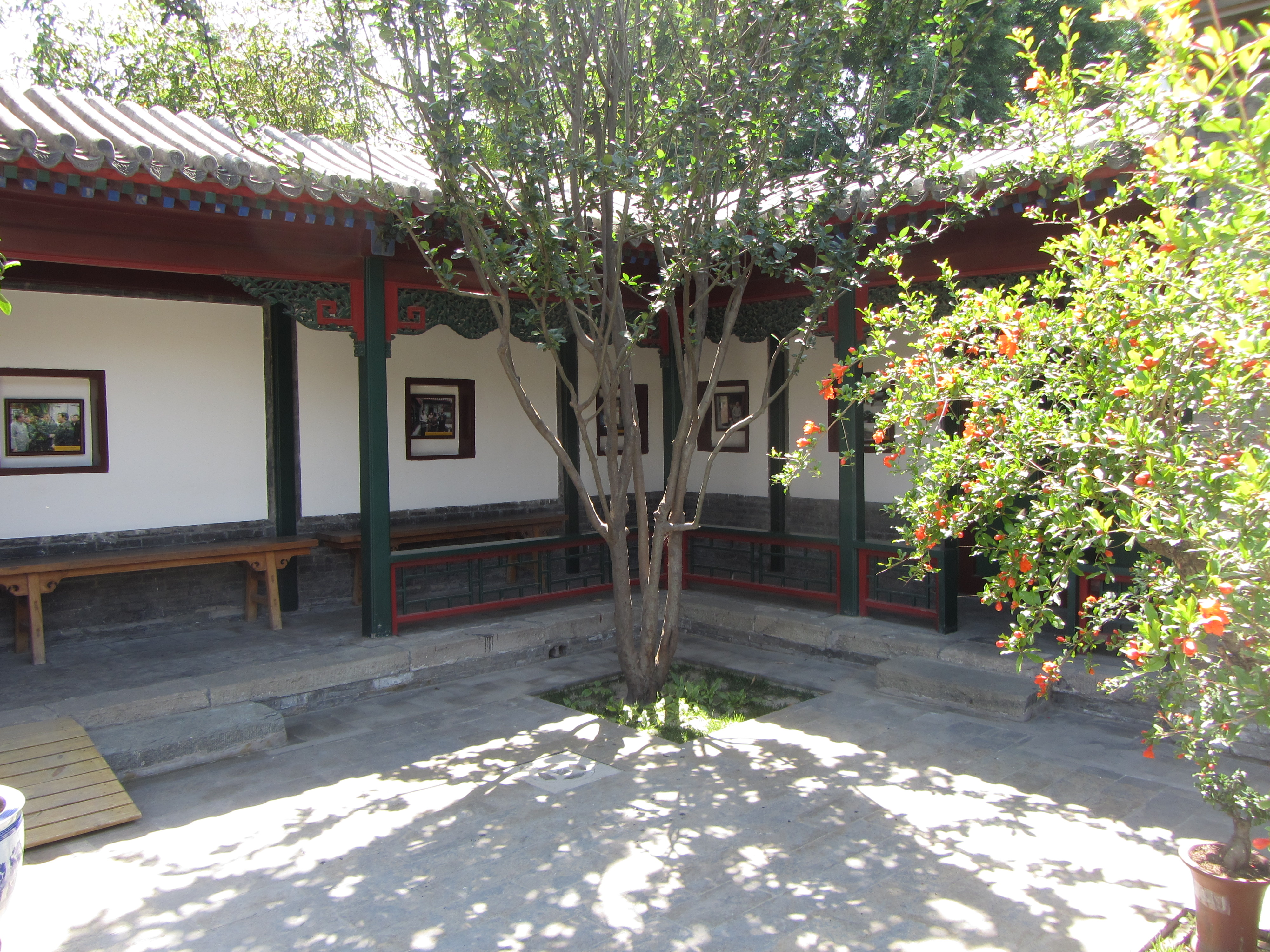 Courtyard 7